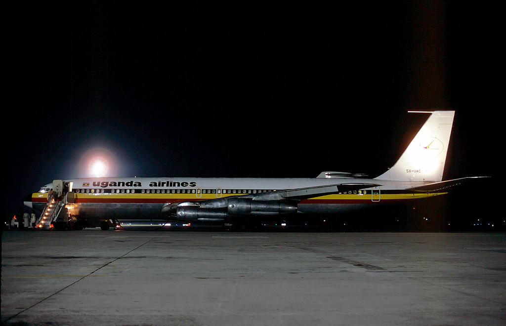 A Uganda Airlines Boeing 707-351C at Euroairport (LFSB)